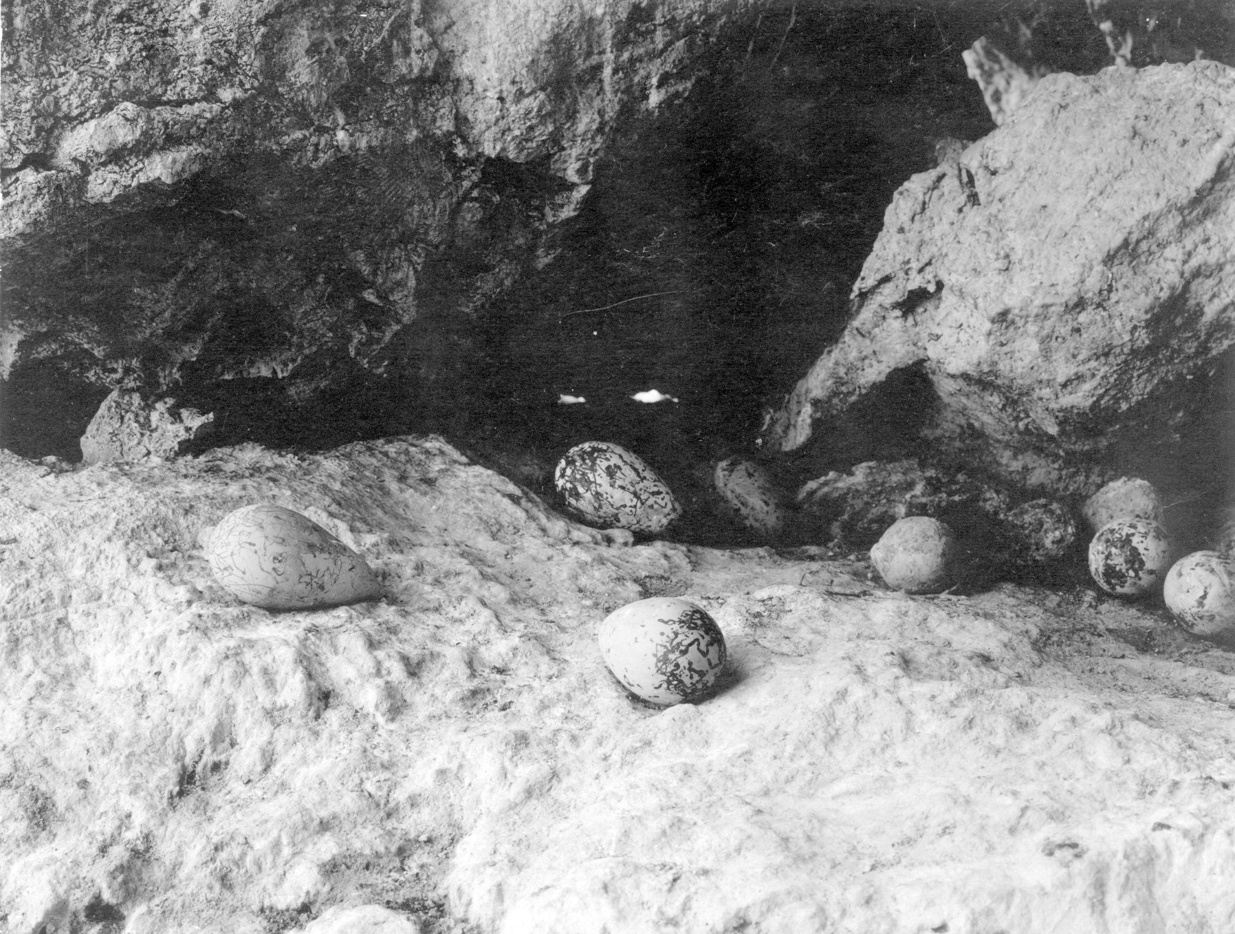 A nest of common guillemot (Uria aalge) at Svarthällarna, on the southeast side of Stora Karlsö, Sweden, in the end of May. Photo by Bengt Berg. Probably photographed for the book Stora Karlsö, published in 1915.